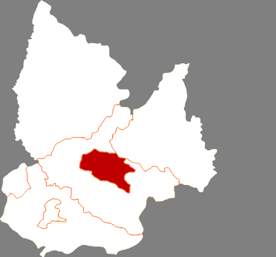 Location of Qinghe district in Tieling City, China